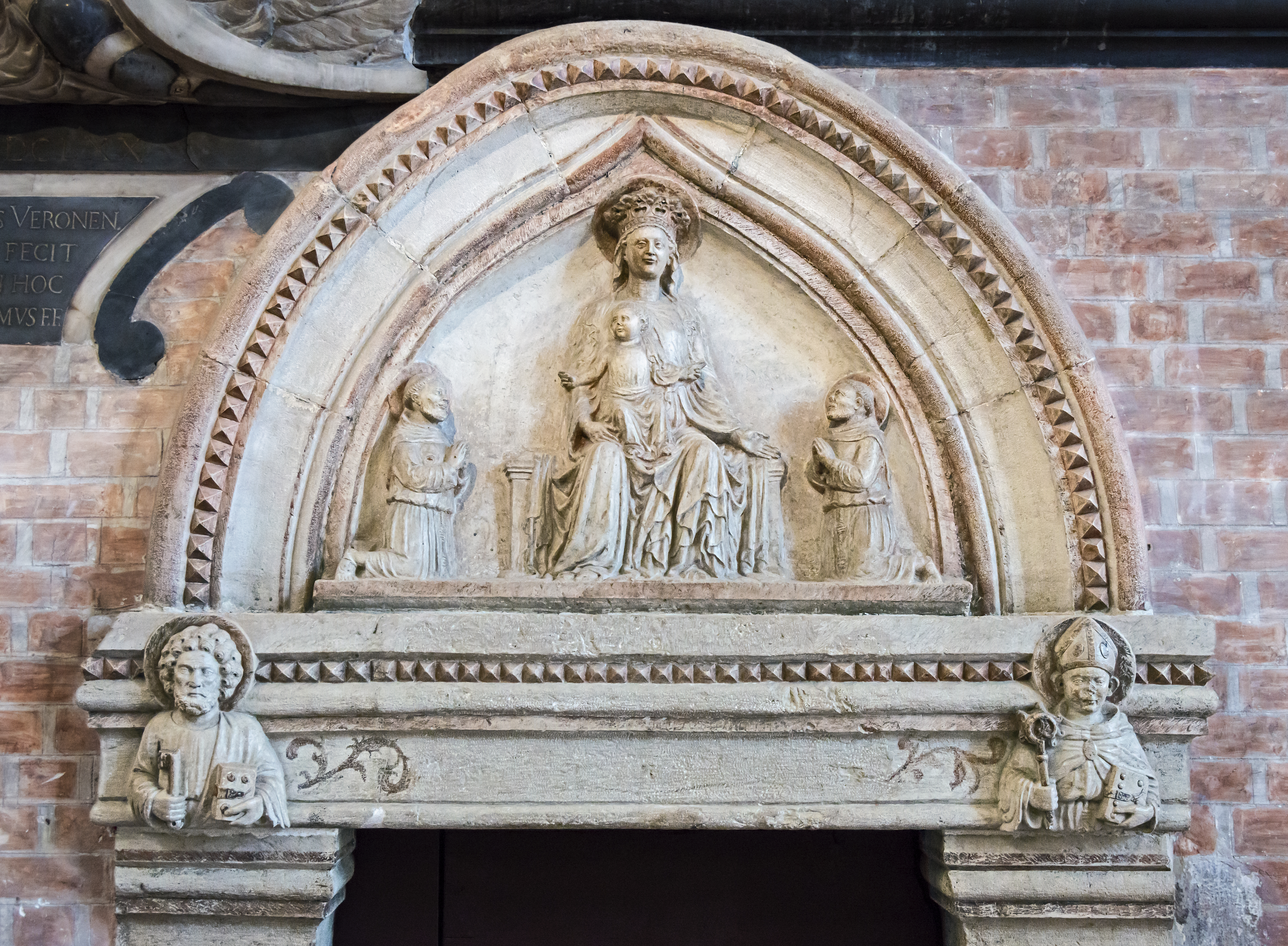 Santa Maria Gloriosa dei Frari. The tympanum of the access door to the bell tower; work in high relief of the fourteenth century. Virgin and Child between St. Francis and St. Anthony and sides: St. Peter right and left St. Louis of Toulouse.